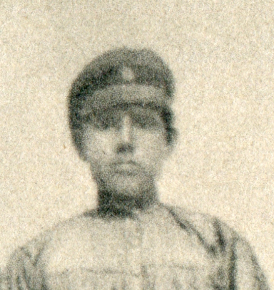 Semyon Zharkoy, Recipient of the Cross of St. George, member of guards teams of many Cenral-Asian geographic expeditions of the end of XIX - beginnings of XX centuries